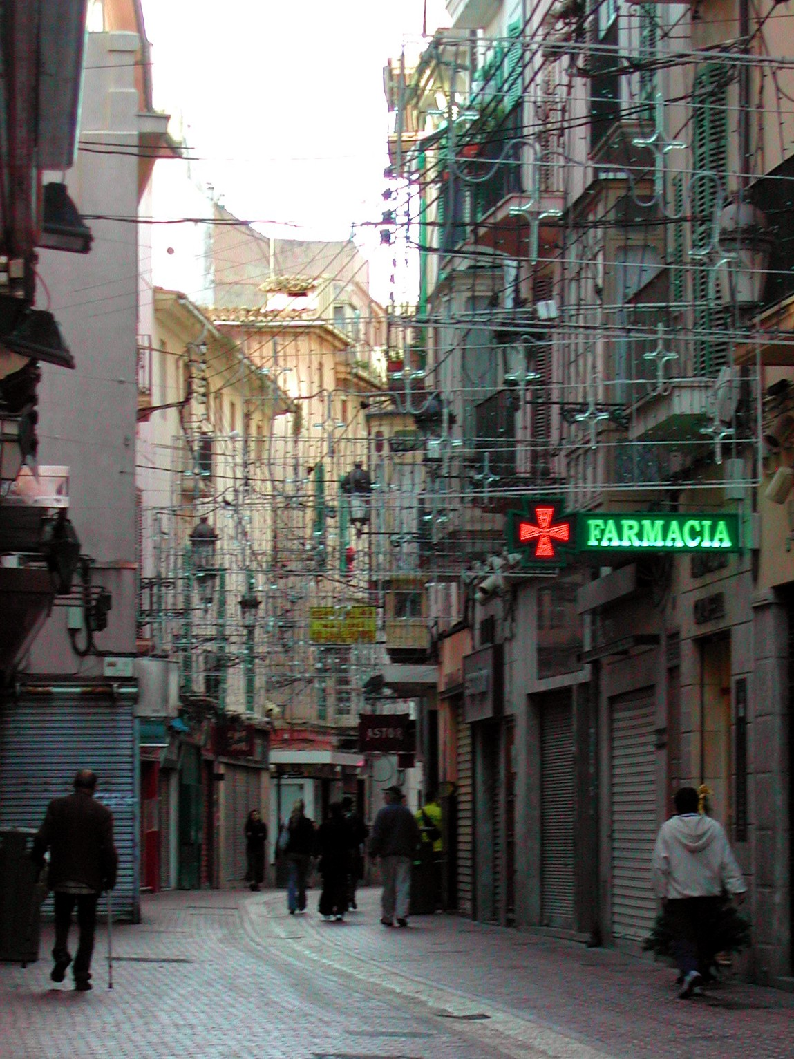 Sindicat street.